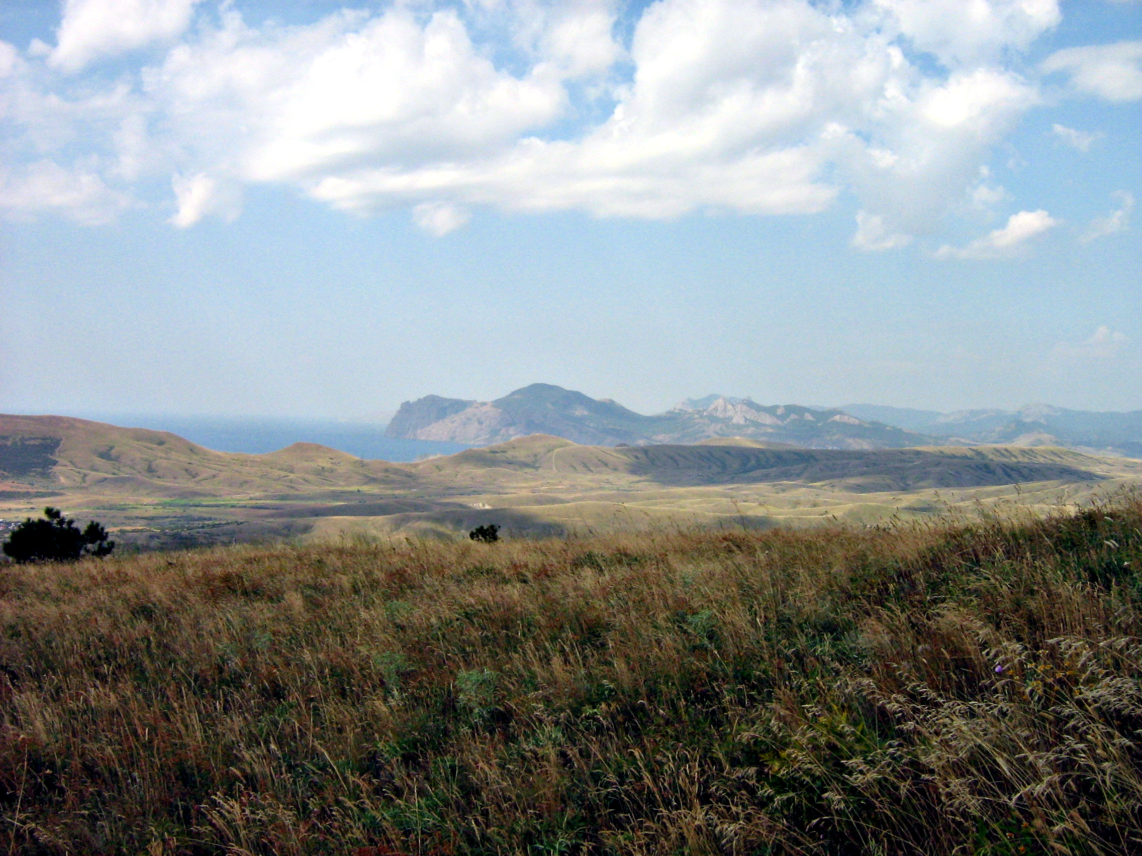 Tepe-Oba near Theodosia. Crimea.Ukraine.